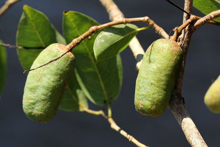 Irvingia smithii Hook.f. - riverine tree on the Aruwimi River in Central DR Congo